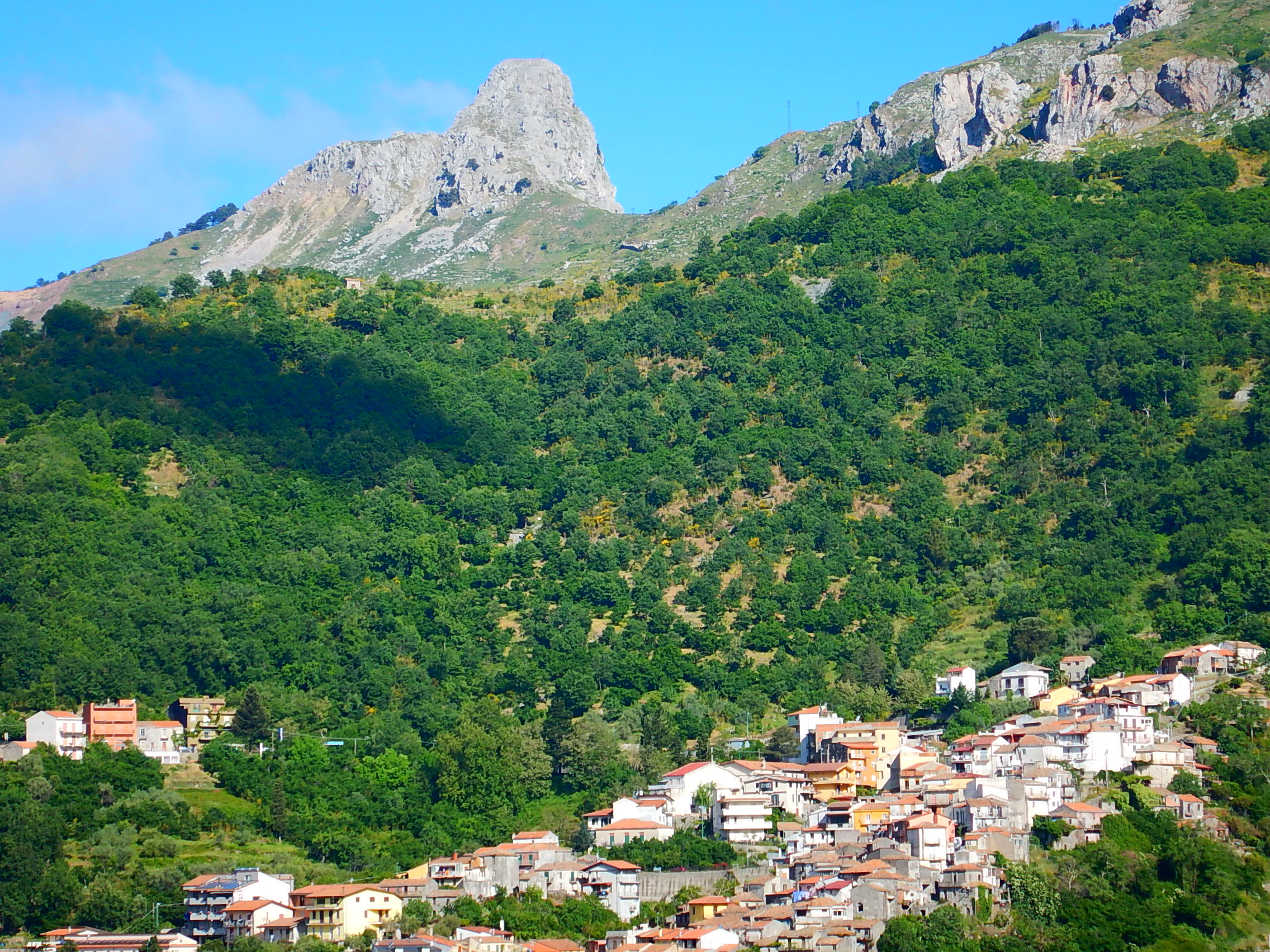 the rocca Salvatesta seen from fondachelli Fantina, Sicily